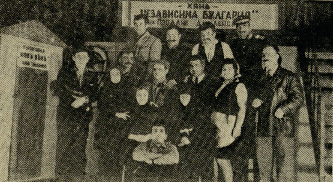 The picture were taken some in 70s